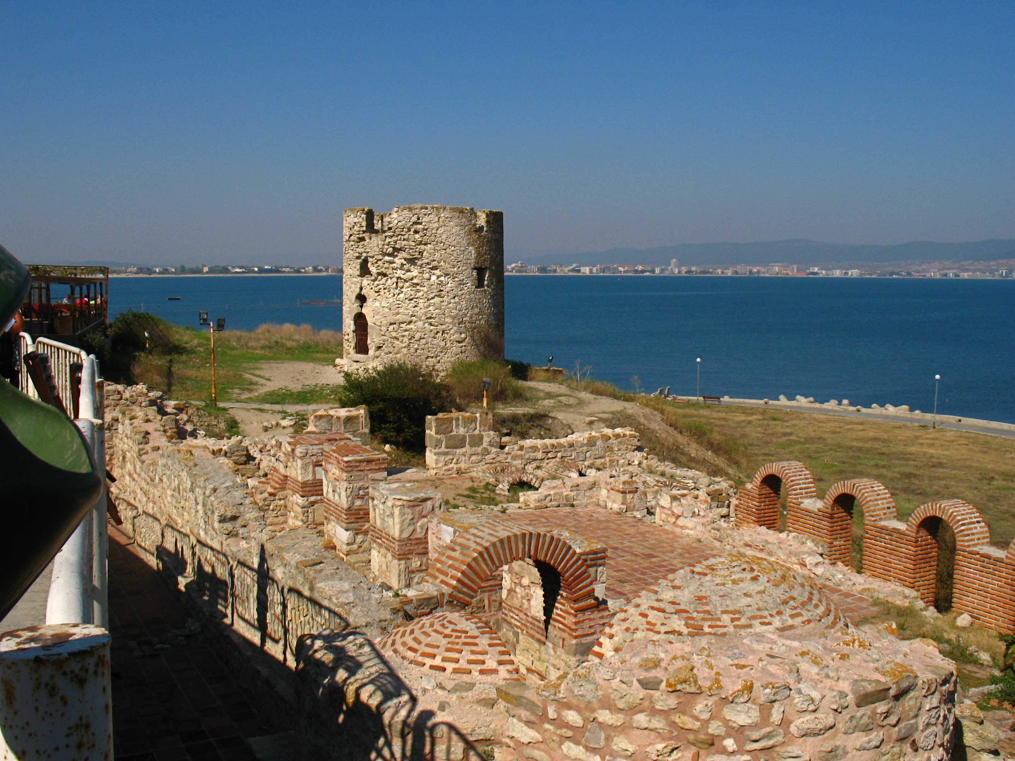 Windmill 18th century and Basilica of Holy Mother of God "Eleusa" on northern side of old city of Nessebar on Black Sea